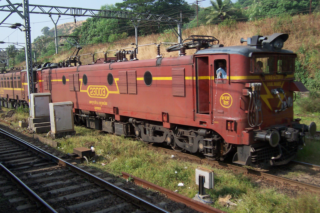 WAG-5 from Bhusawal